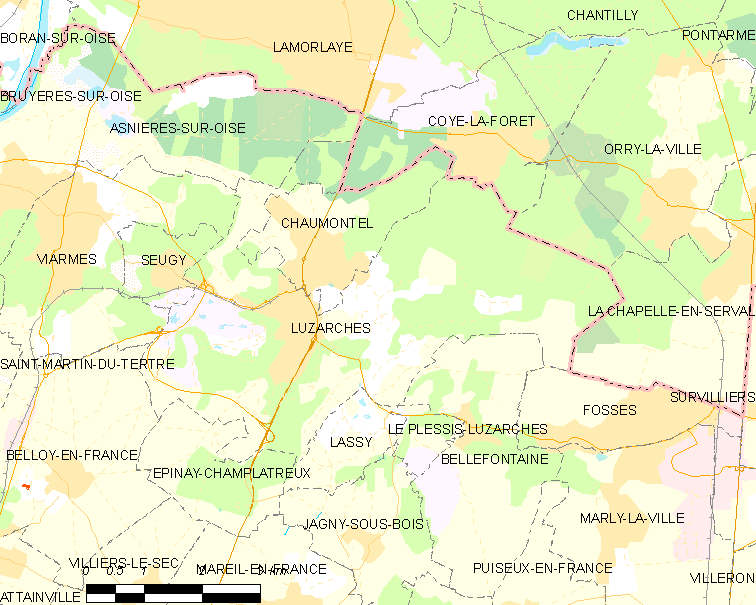 Map of French municipality Luzarches